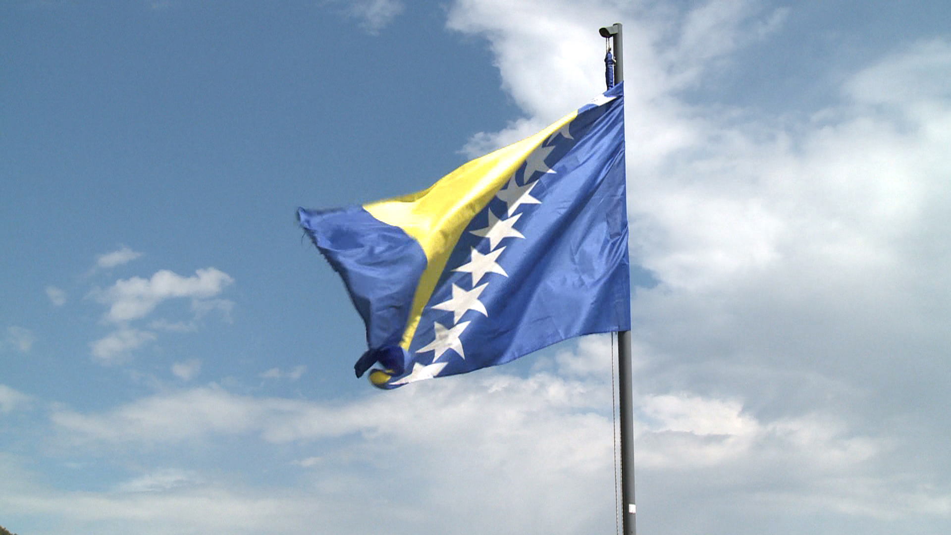 flag from Bosnia and Herzegovina